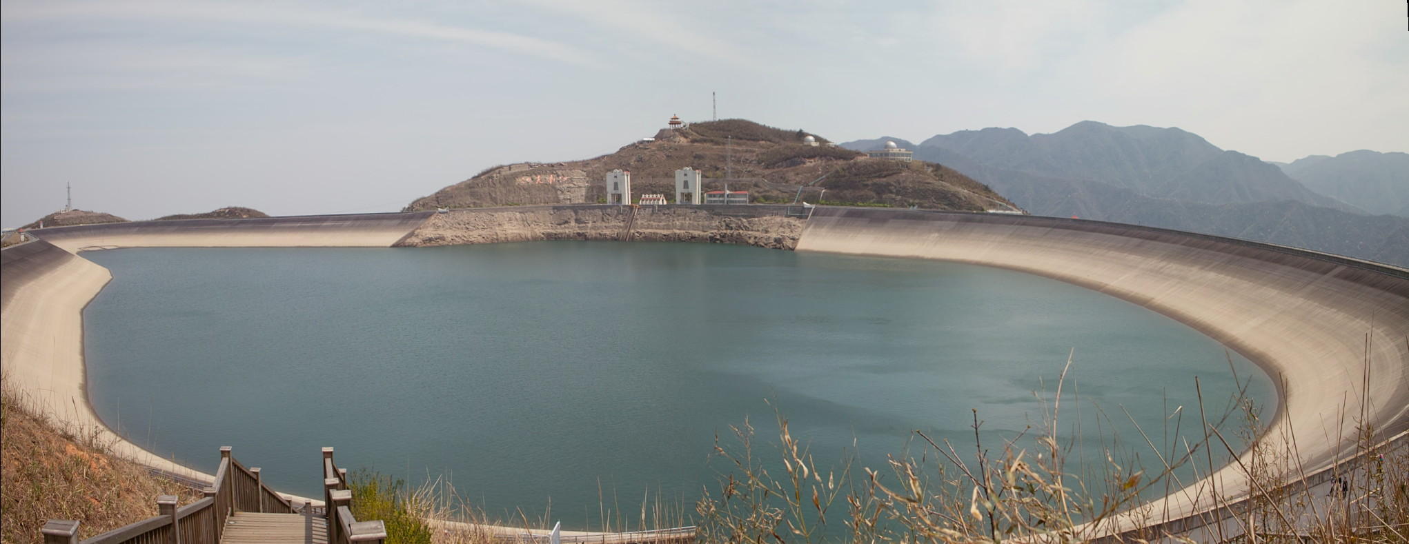 Tianhuangping reservoir in Anji, Zhejiang, China 中文（中国大陆）: 江南天池，位于中国浙江安吉，是天荒坪抽水蓄能电站的水库